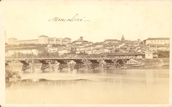 Giacomo Brogi (1822-1881): Moncalieri". 1865s